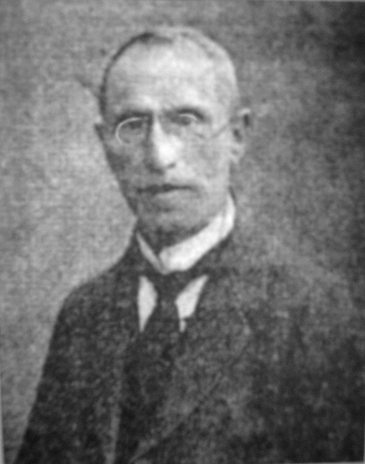 Henryk Biegeleisen (1855–1934), literary historian, ethnographer, critic, publisher, journalist, and educator.